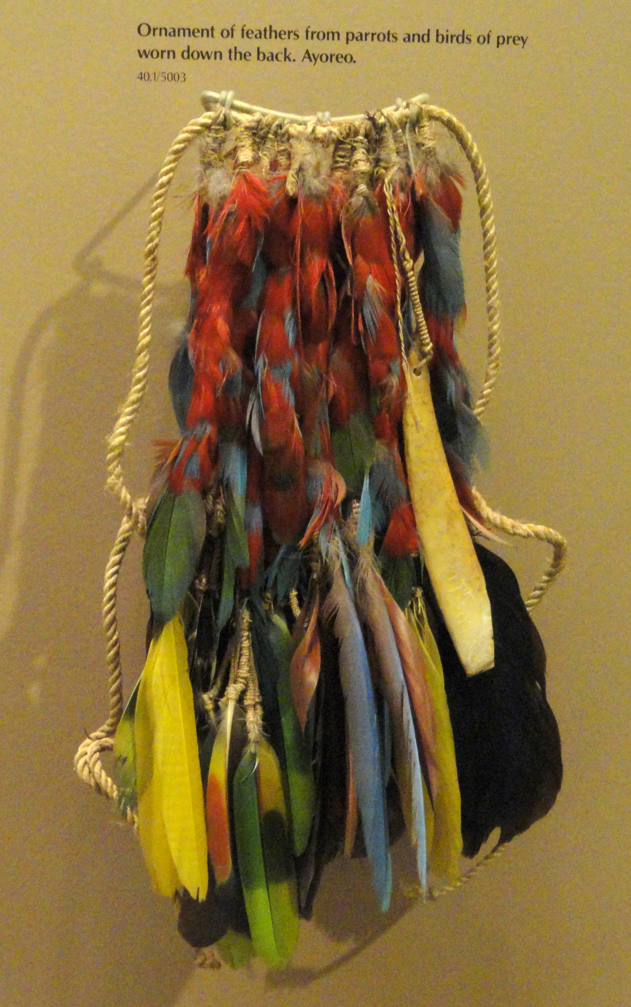 Exhibit in the South American collection of the American Museum of Natural History, Manhattan, New York City, New York, USA.